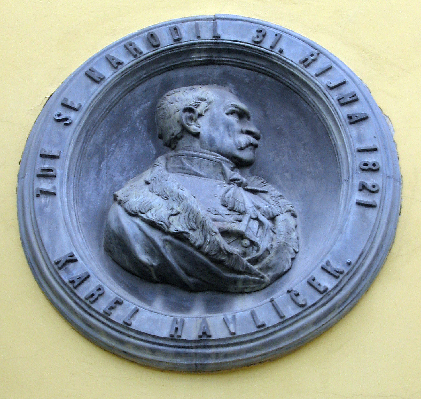 Karel Havlíček Borovský